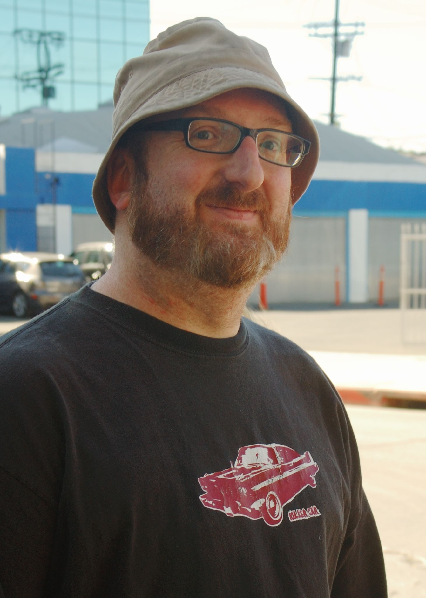 Actor Writer Brian Posehn.